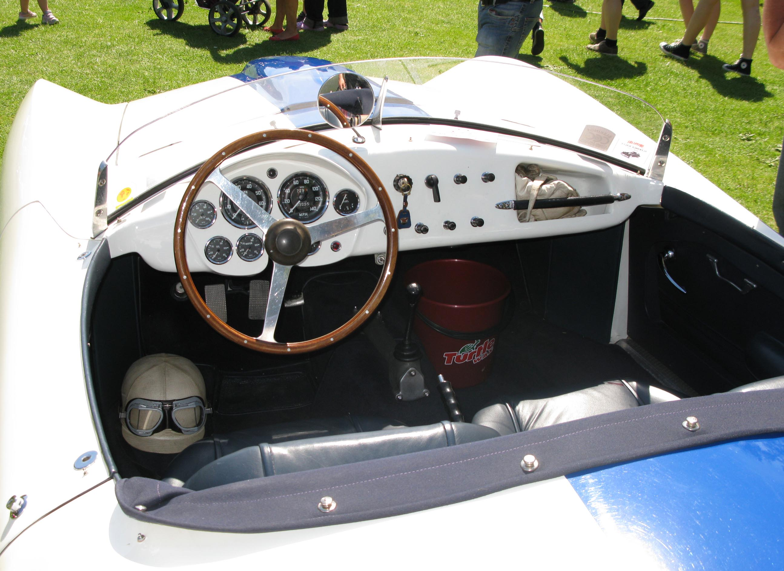 1954 Arnolt Bristol.Event: Nostalgia festival, Ronneby 2012